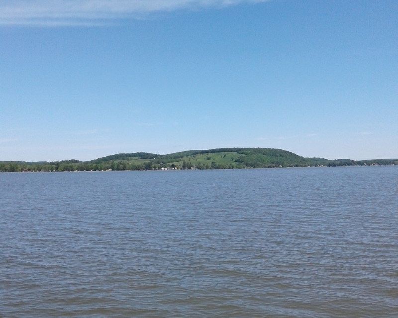 View of Nine Hill taken from Canadarago Lake located southwest of the Village of Richfield Springs, New York. Taken May 2019.